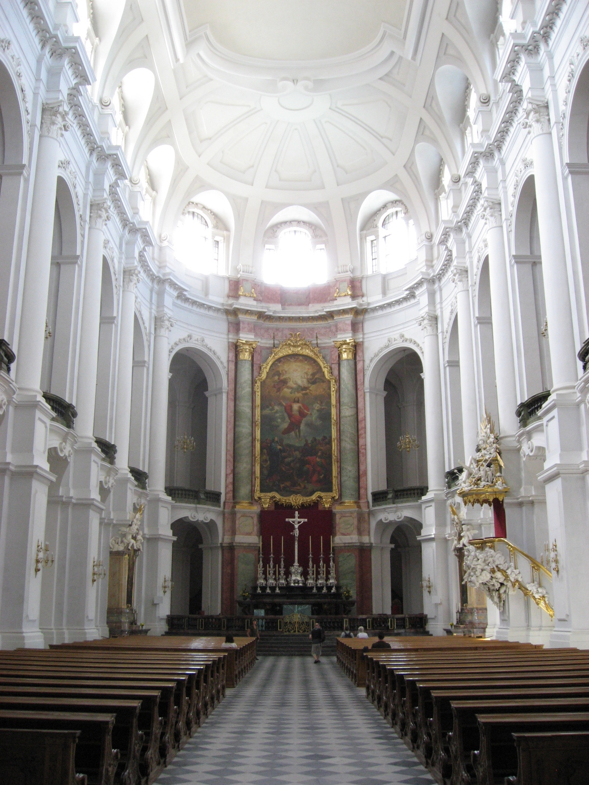 Interior of the Katholische Hofkirche Dresden.